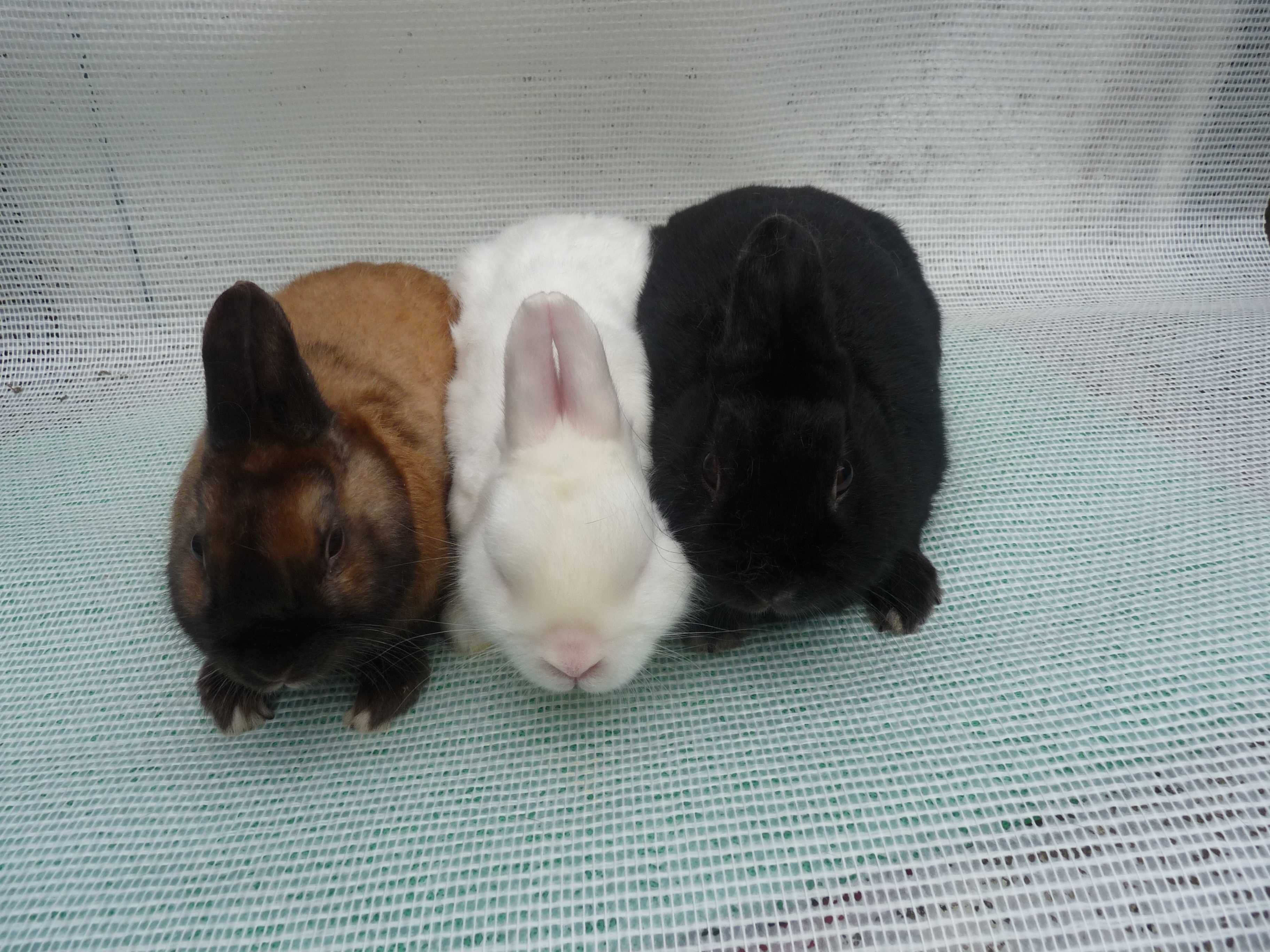 Satin dwarf rabbits - this is a word-by-word-translation of the french breed name